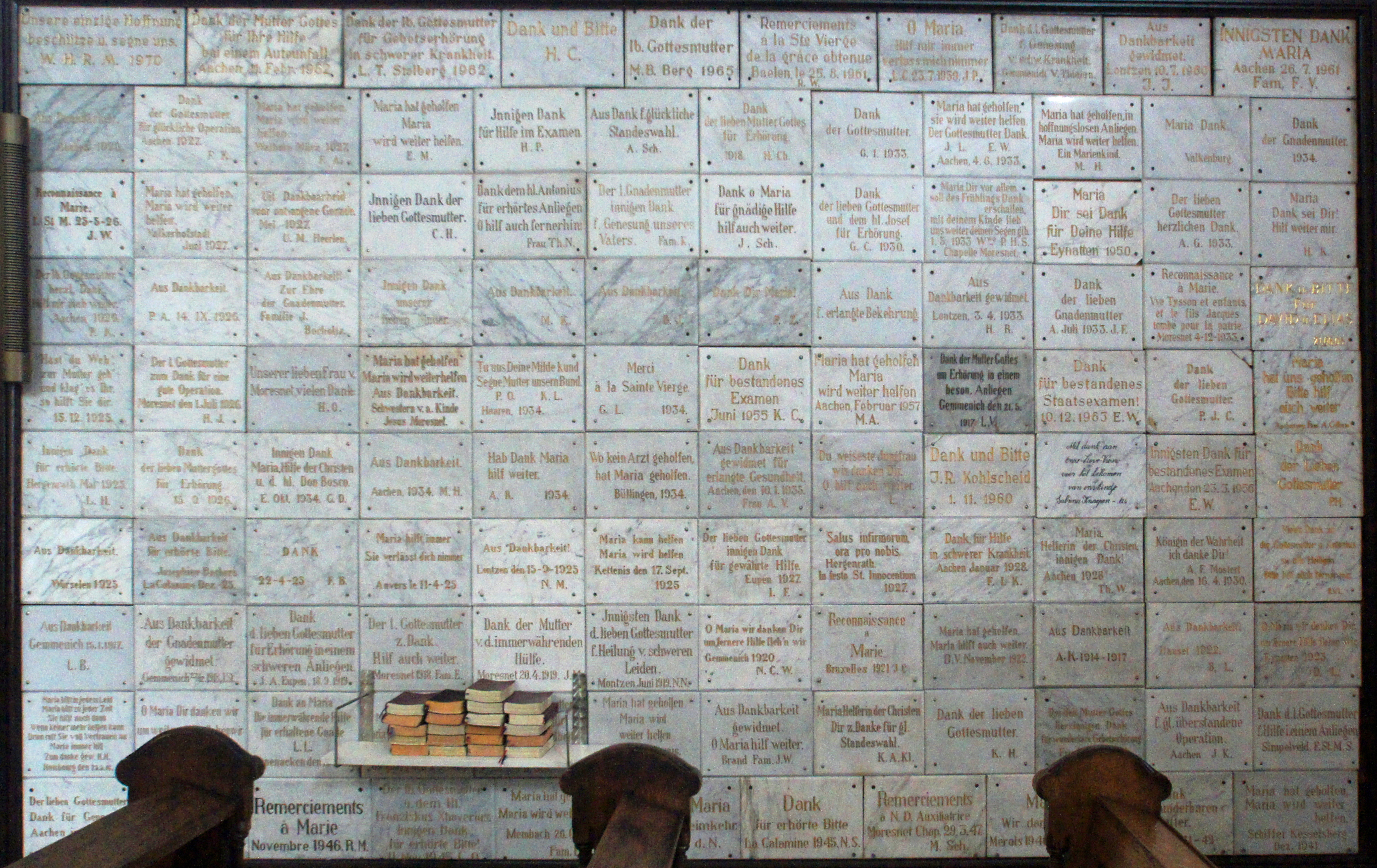 Moresnet (Moresnet-Chapelle), Belgium: Ex-voto